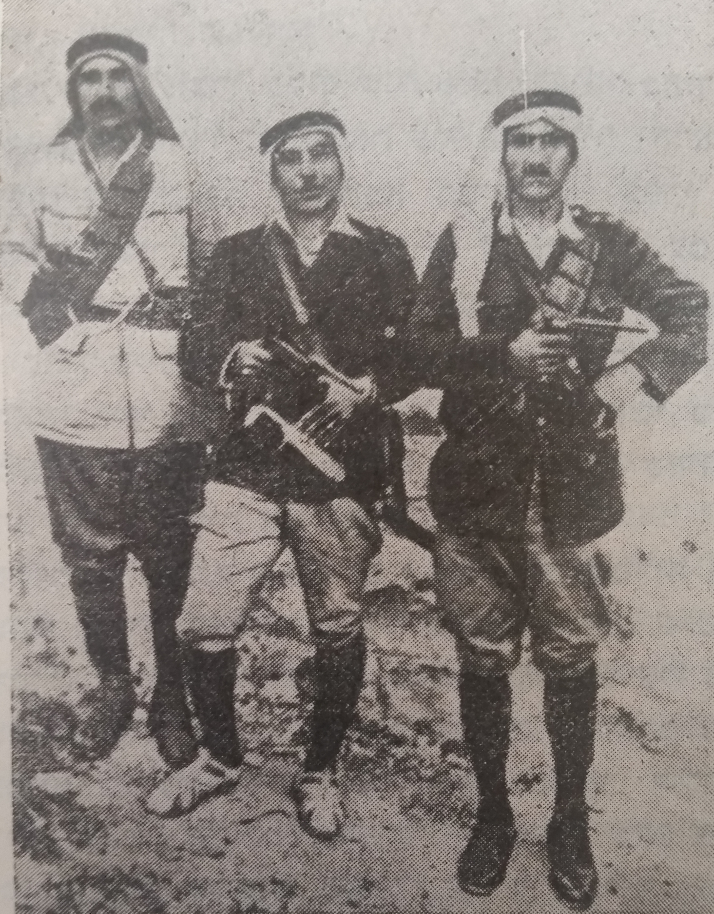 Under the photo, the caption says in Hebrew: "Commanders of Gangs, 1938. Commander Aref Abd al-Razek (center) with his two deputies (Right - Muhamad Omar al-Nubani' Left - Hamad Zuata)."